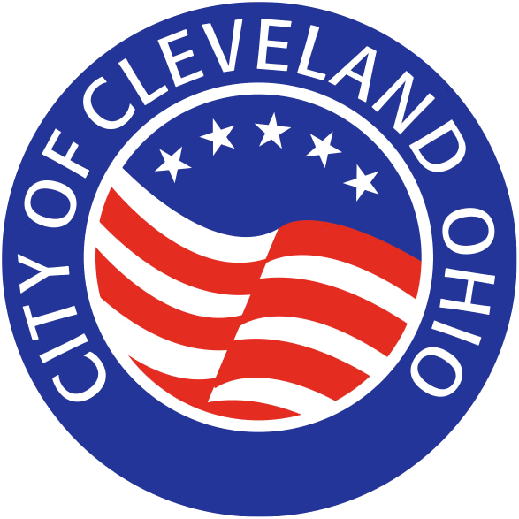 Seal of Cleveland